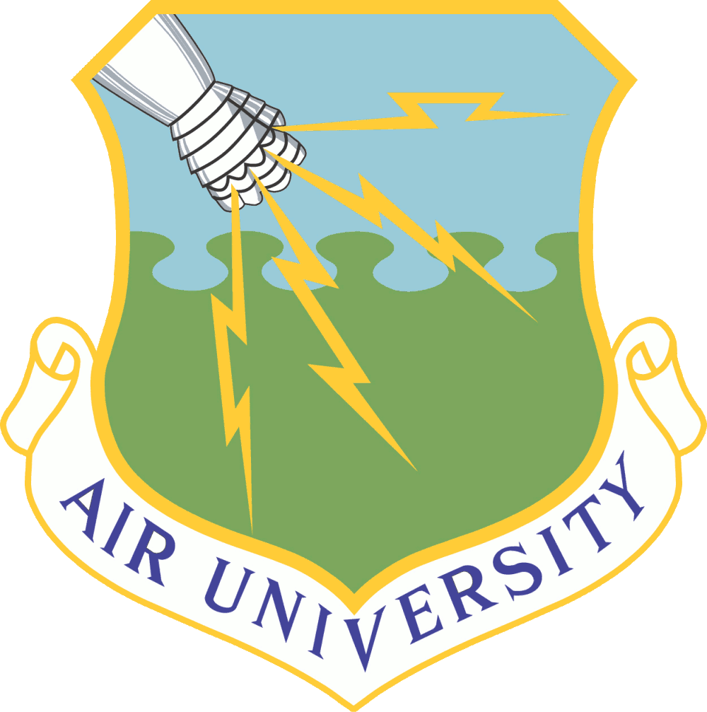 Emblem of Air University of Air Education and Training Command of the United States Air Force